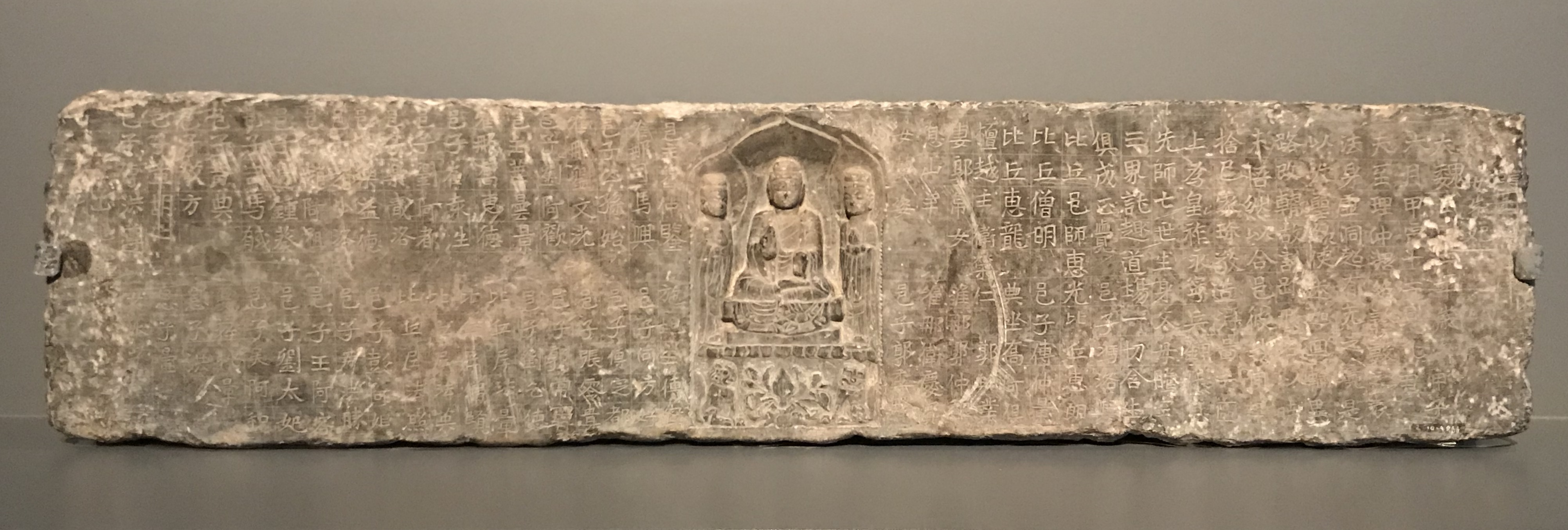 Stele inscribed with Buddhist texts, with image of Buddha and two bodhisattvas. Dated 544 (Eastern Wei dynasty). Museum of Asian Civilizations, Singapore.